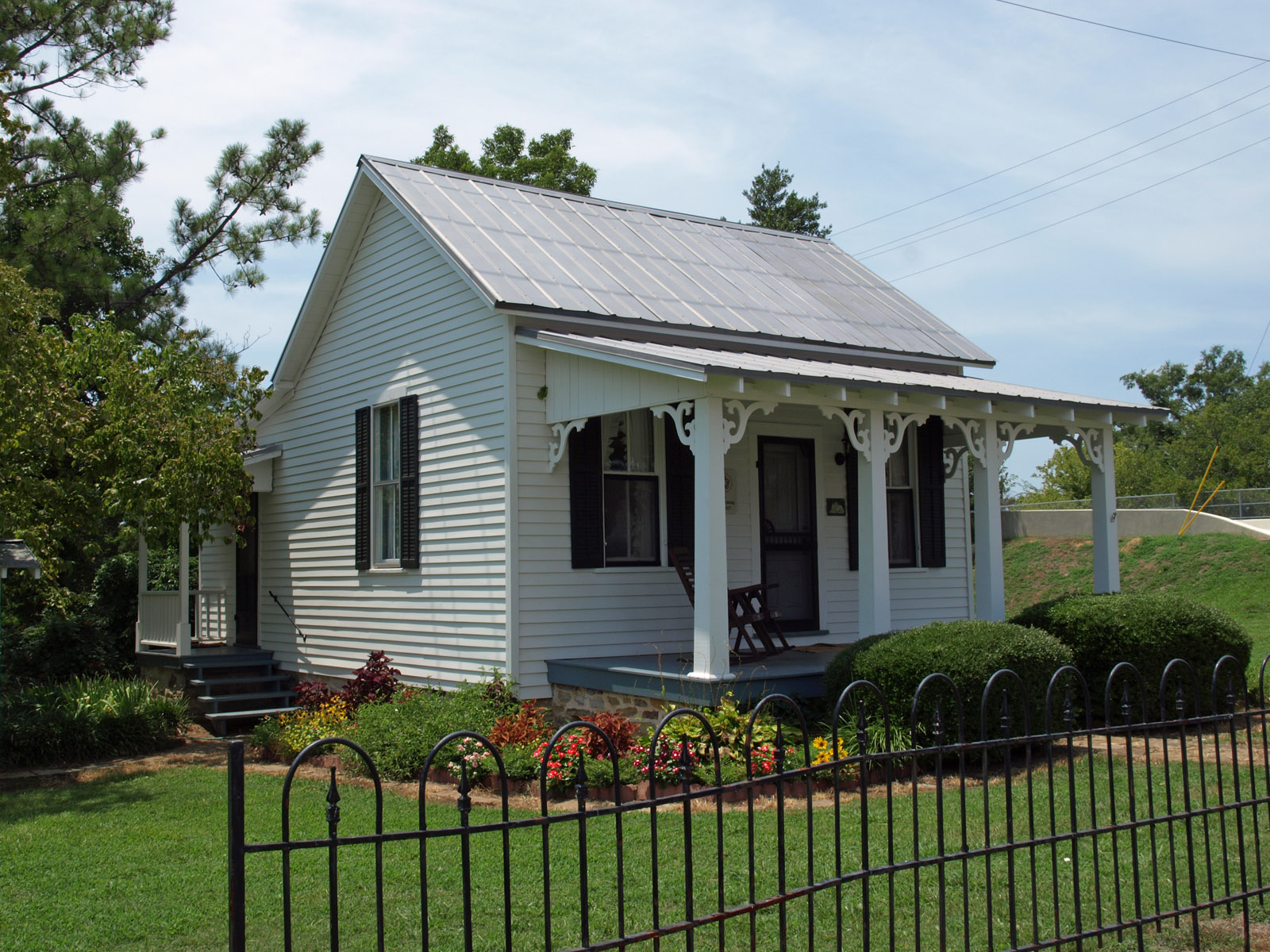 The Weiss House in Cullman, Alabama, listed on the Alabama Register of Landmarks and Heritage